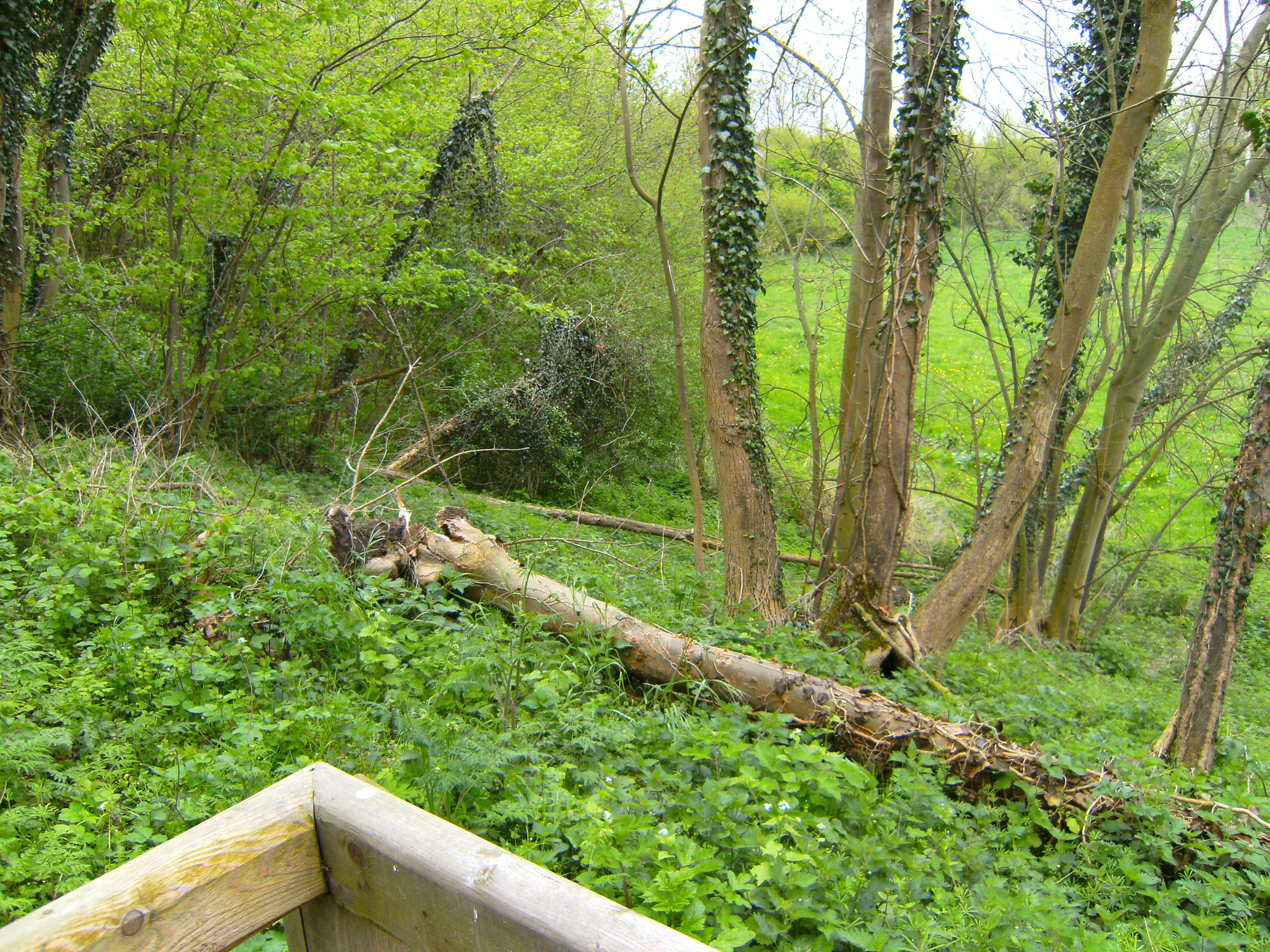 Circular wall south of Pöppendorf (Pöppendorfer Ringwall) near Lübeck, Germany. Inner part of the wall.